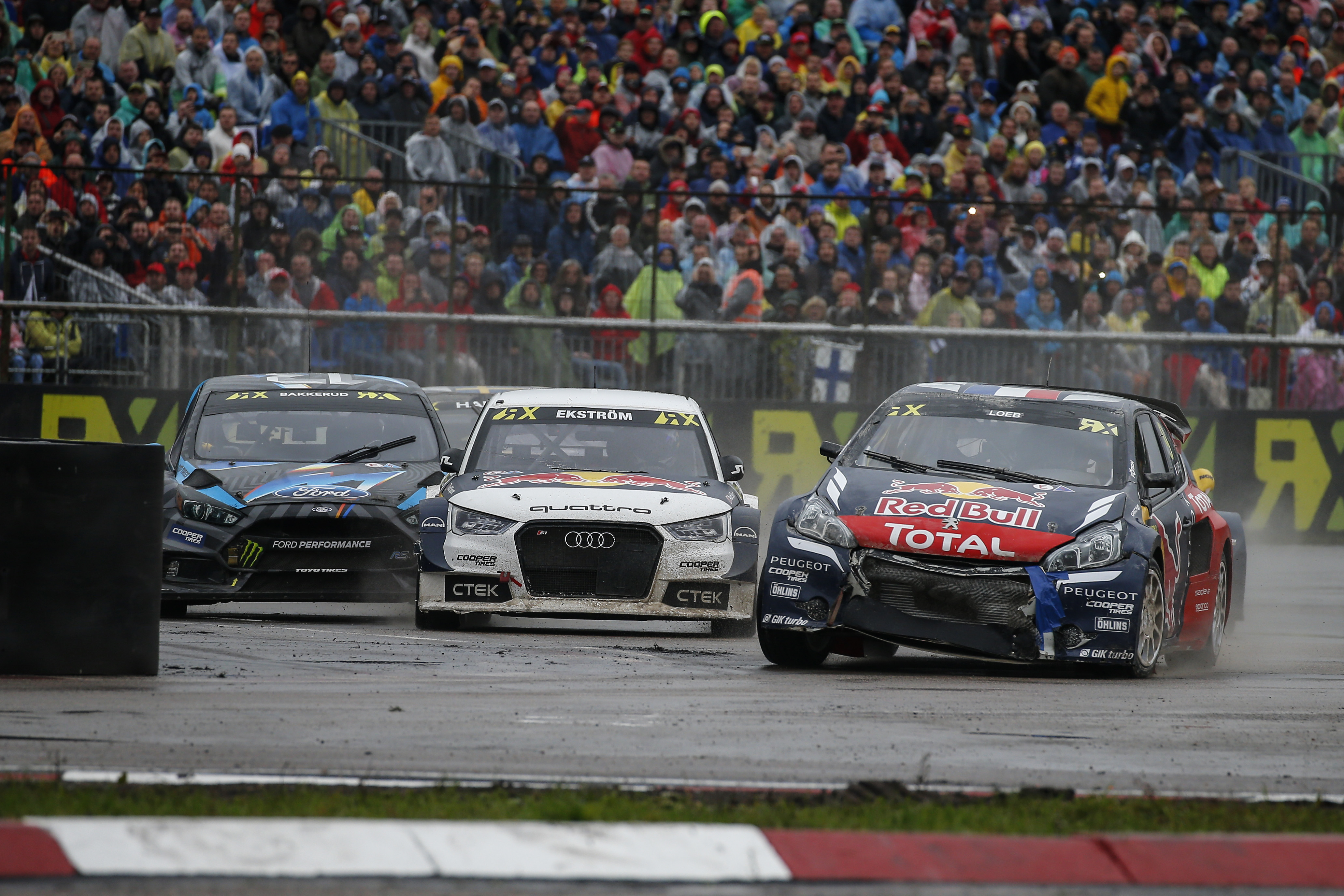 2016 FIA World RX Rallycross Championship / Round 10, Riga, Latvia, October 1-2 2016 // Worldwide Copyright:Tony Welam/EKS/McKlein